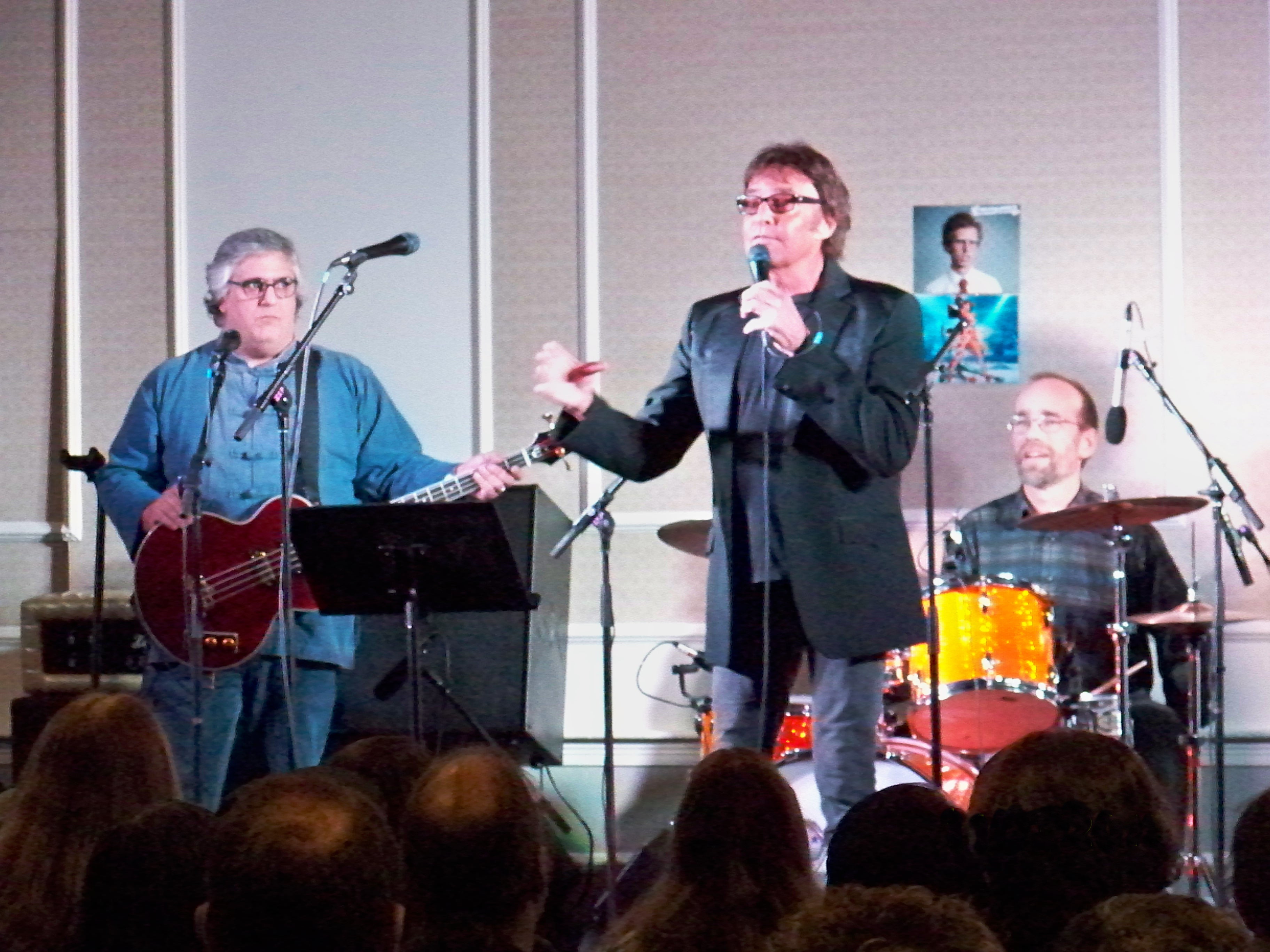 SuperMegaFest Nov 2013